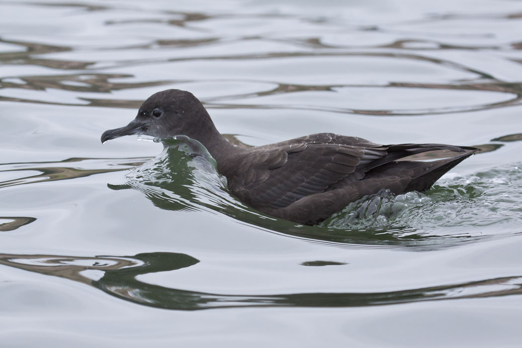 A Sooty Shearwater near Avila Beach, California, USA.